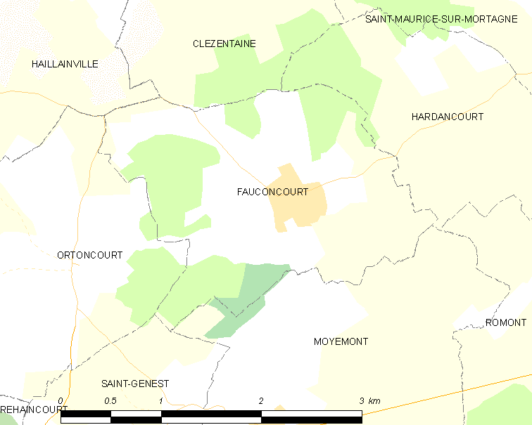 Map of French municipality Fauconcourt